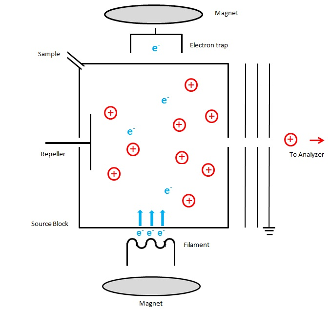 Schematic Diagram of Electron Ionization Instrumentation